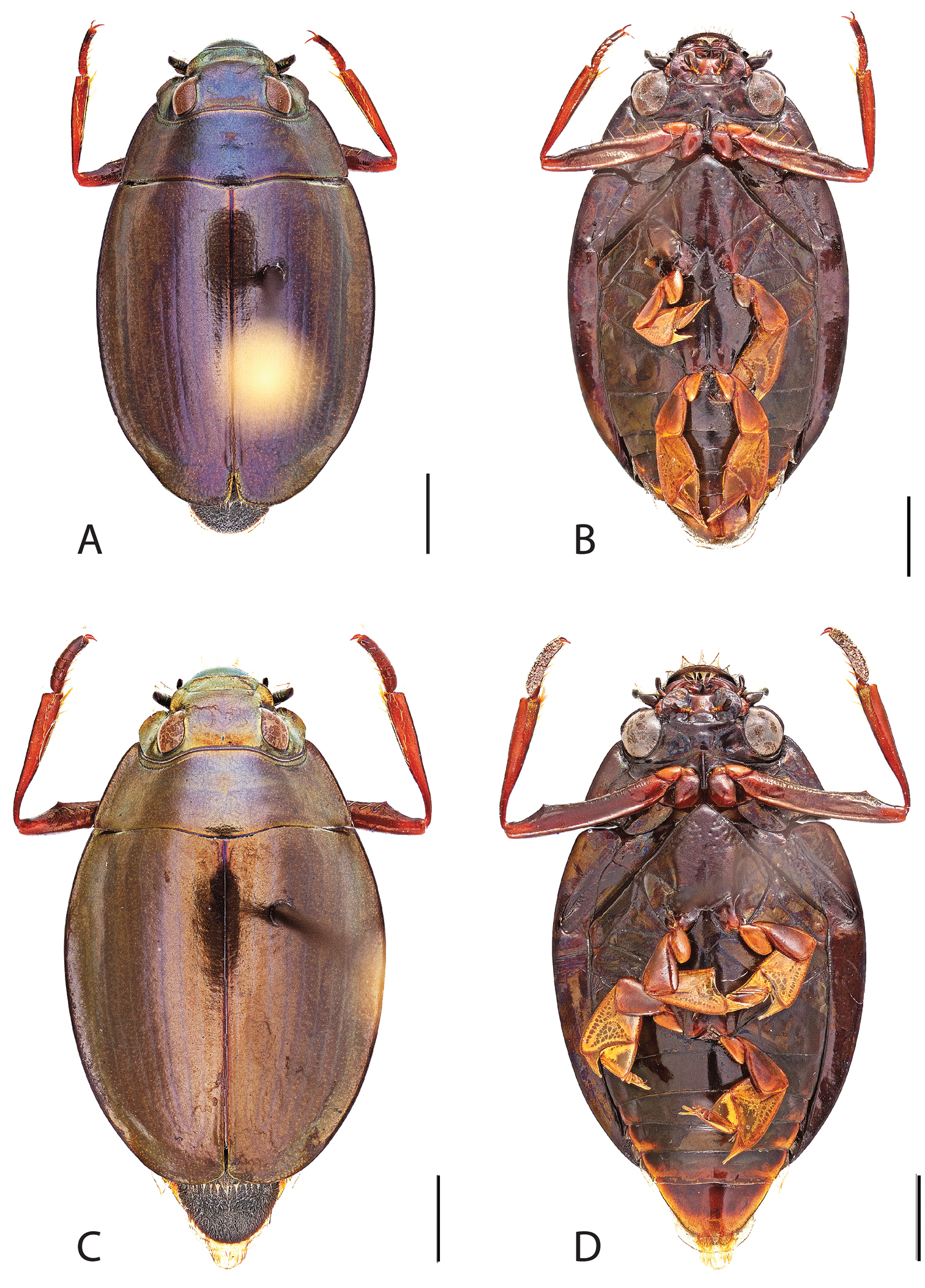 Dineutus emarginatus. (A) female dorsal habitus, (B) female ventral habitus, (C) male dorsal habitus, and (D) male ventral habitus. All scale bars ≈ 2 millimetres (0.079 in).